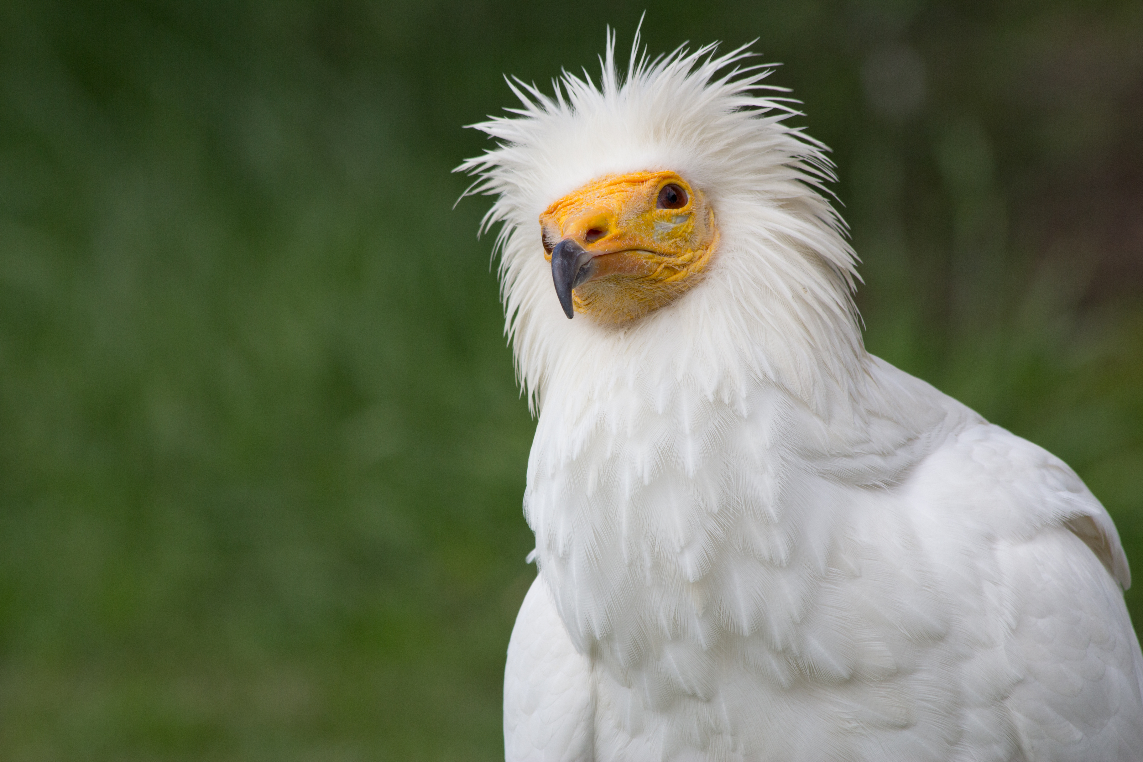 Egyptian Vulture, White Scavenger Vulture or Pharaoh's Chicken (Neophron percnopterus) in the Zoo of Madrid, Spain.